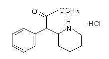 Concerta material structural formula differed from other drugs also out of Methylphenidate.